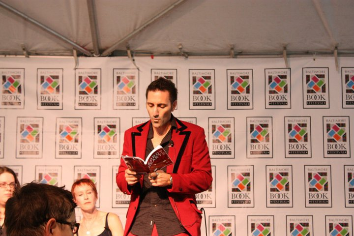 Baltimore Book Reading 2010.